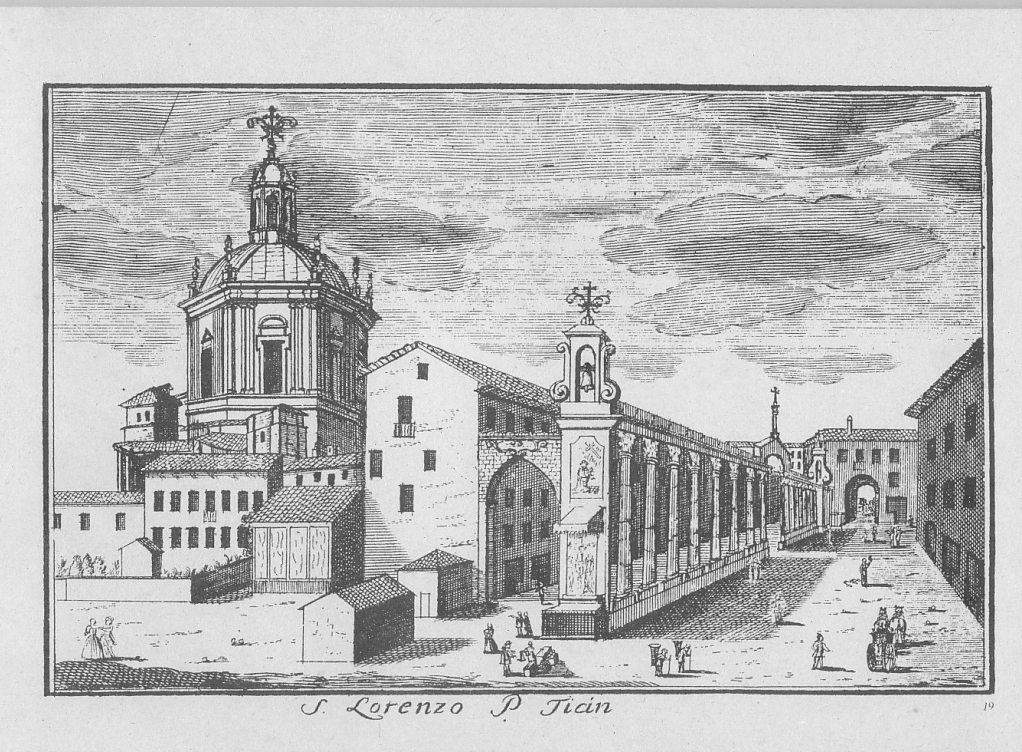 Marc'Antonio Dal Re (1697-1766), San Lorenzo in Milan. This engraving is # 19 from a set of 88 Vedute di Milano ("Views of Milan") published by Del Re around 1745.